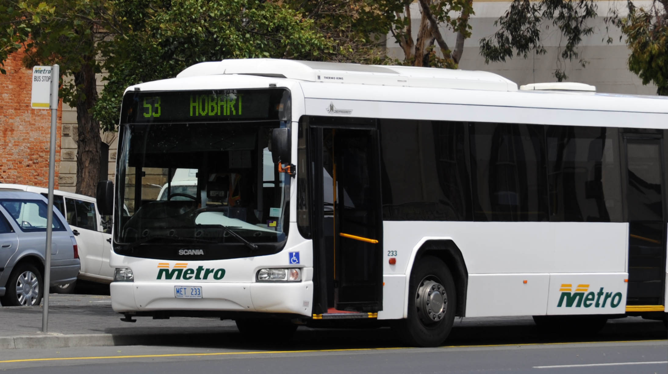 A low floored, North Coast Bus & Coach (NCBC) "Downtown City Bus" bodied Scania L94UB, Metro Tasmania bus (Australia)